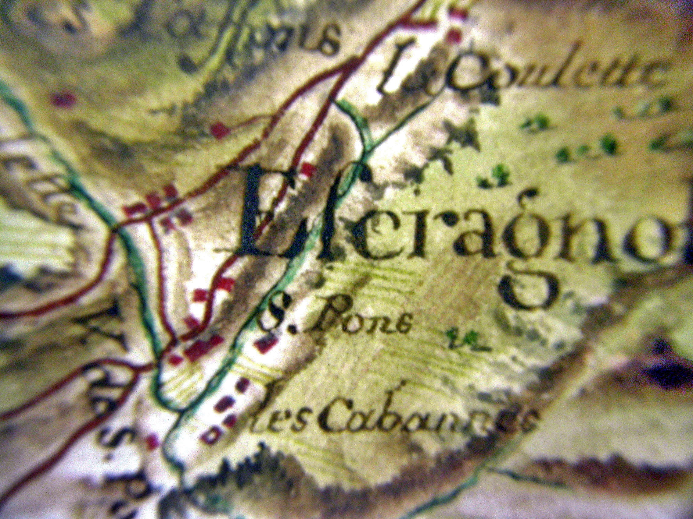 Escragnolles in 1766